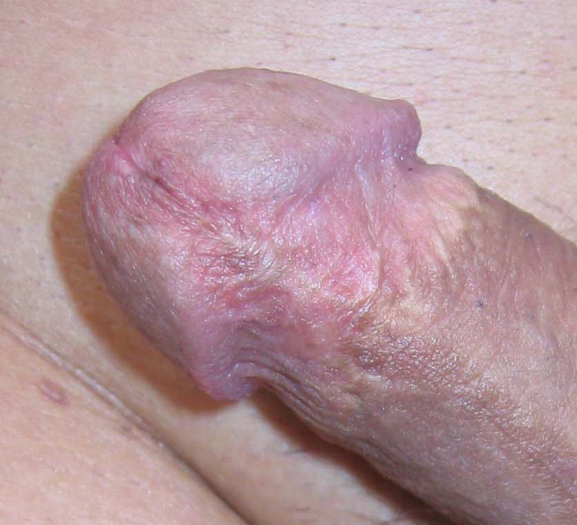 Circumcised Penis, backside of glans, frenum radically cut away